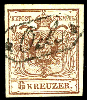 6 kr issue 1850 cancelled type sqBo in Oels in Böhmen - post office closed in 1858